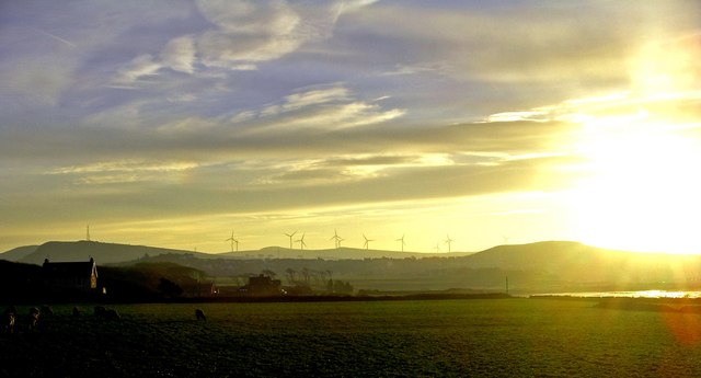 Morning Energy - Ardrossan Wind Farm From Portencross Taken just after Sunrise